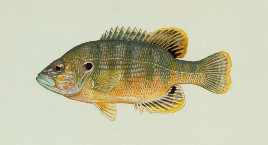 Green sunfish (Lepomis cyanellis). Drawing by Duane Raver. Summary Title: Green sunfish Alternative Title: Lepomis cyanellus Creator: Raver, Duane Source: WVDR-42-Raver Publisher: U.S. Fish and Wildlife Service Contributor: NATIONAL CONSERVATION TRAINING CENTER-PUBLICATIONS AND TRAINING MATERIALS Rights: (public domain) Subject: fish Abstract: Scans of artwork commissioned by the Fish and Wildlife Service in the 1970's. Original art is kept at NCTC museum. Available: June 19 2002 Issued: June 19 2002 Modified: May 10 2004